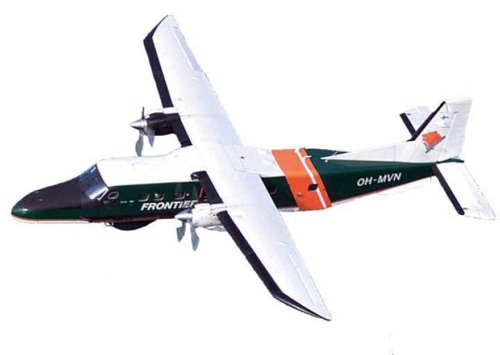 A Dornier Do 228 patrol aircraft of the Finnish Border Guard